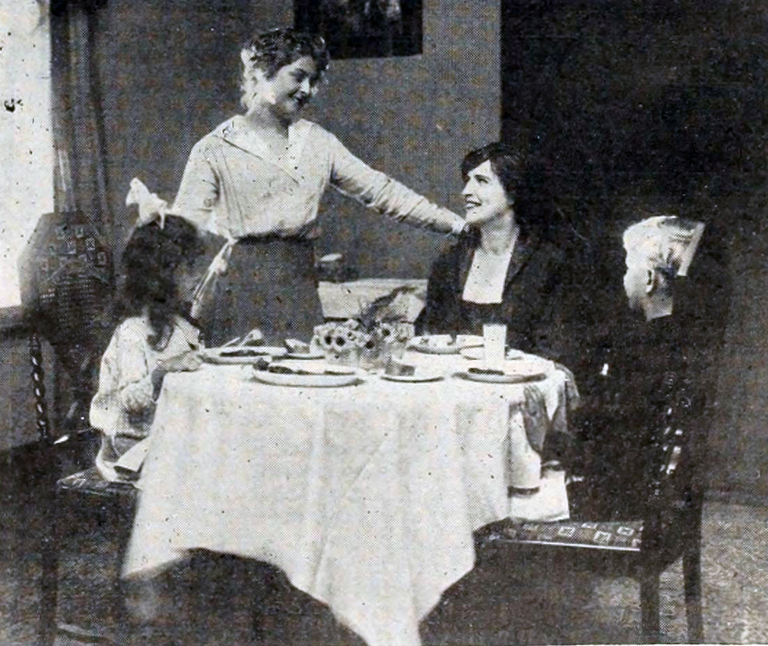 Illustration of an article in The Moving Picture World